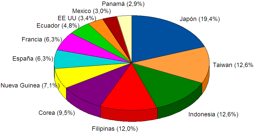 World Tuna Catches by Countries (2007)